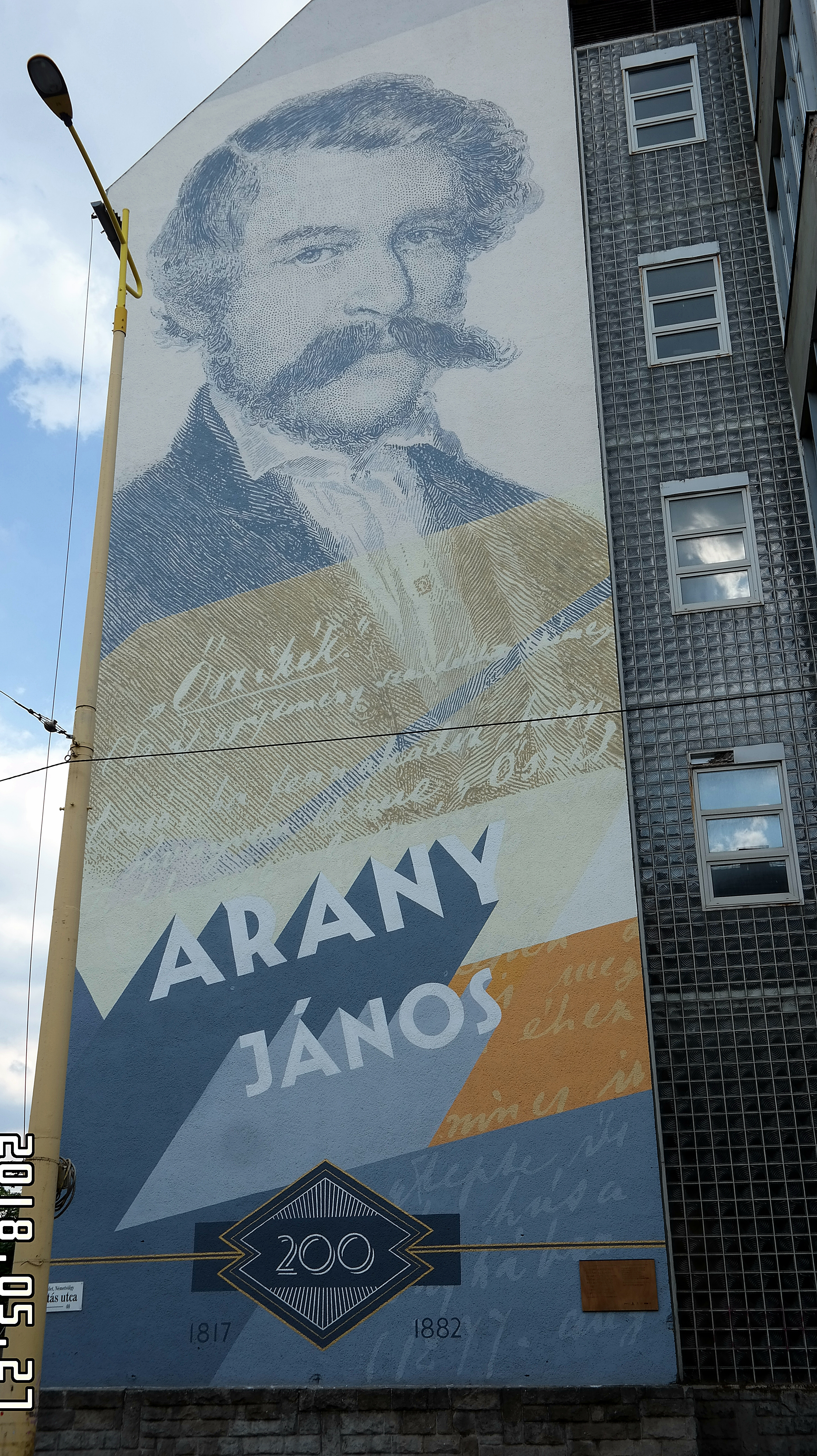 Portrait painting of János Arany on a firewall at Alkotás Street in Budapest